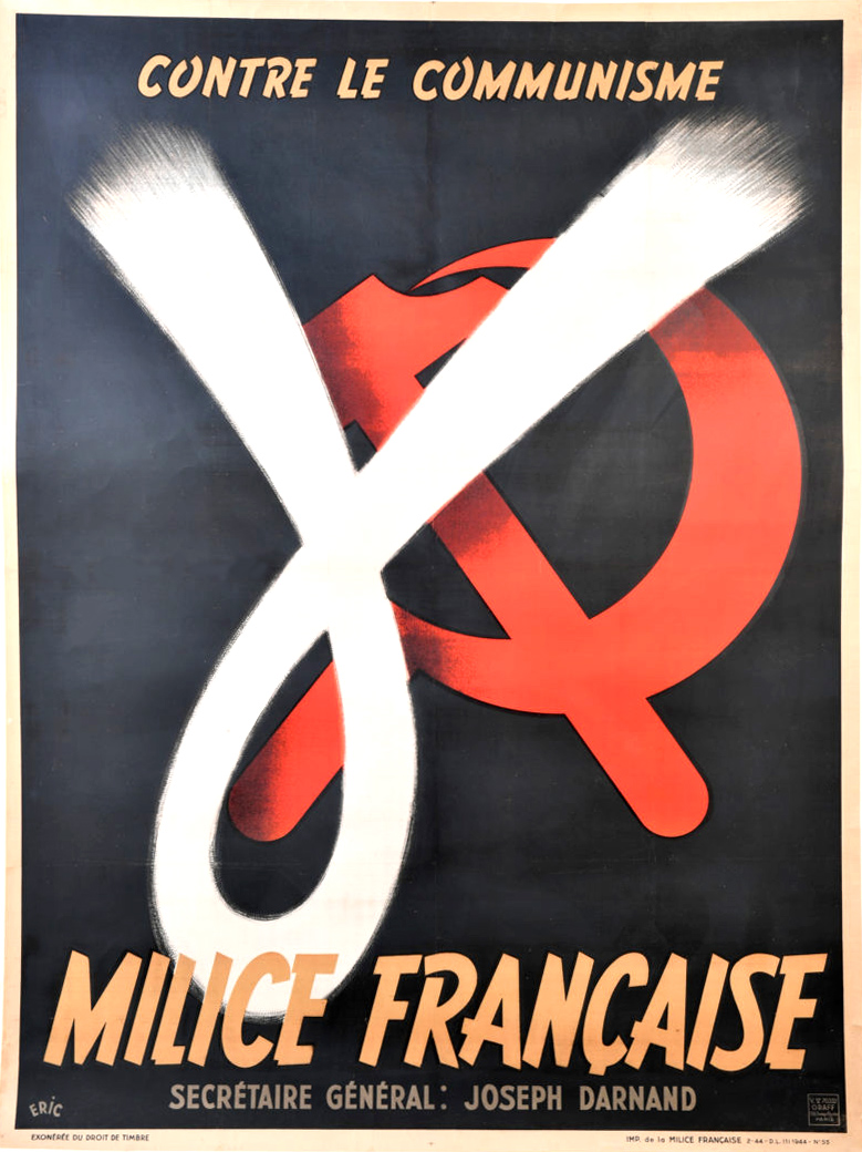 Recruitment poster of the Milice (the Milice was a paramilitary organization of Vichy France, repressing the French resistance and participating in the deportation of the Jews).